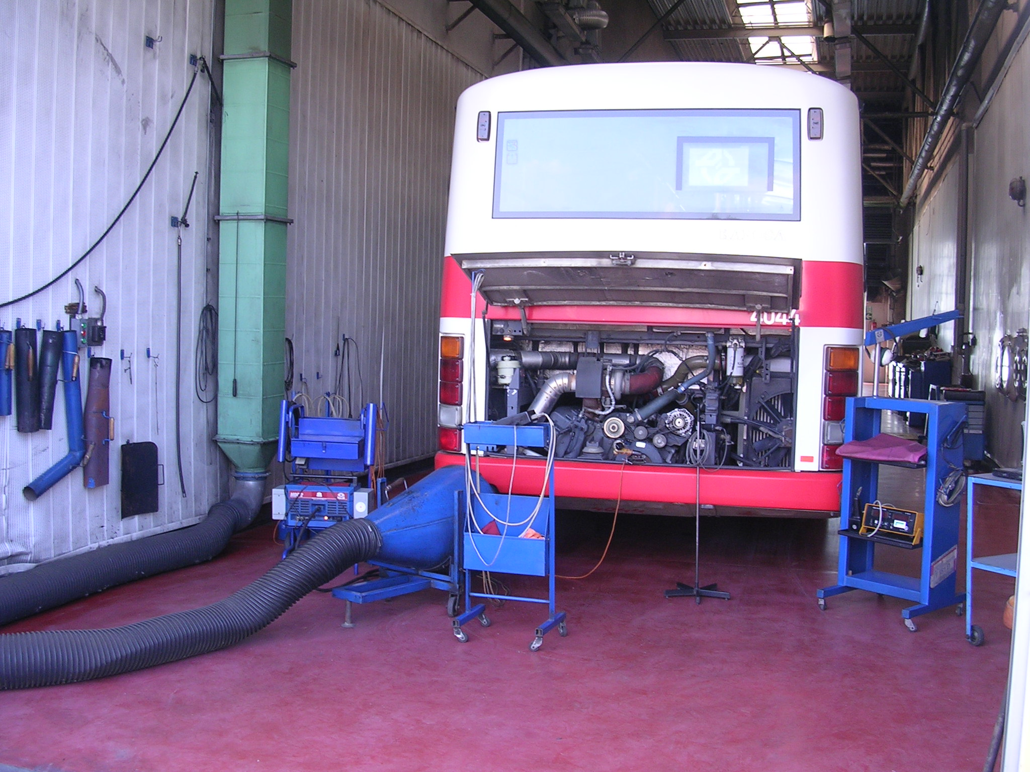 Řepy, Prague, the Czech Republic. Open Doors Day in Řepy bus depot. Karosa B 951E, exhaust-emission measurement. - Google Maps - Google Earth